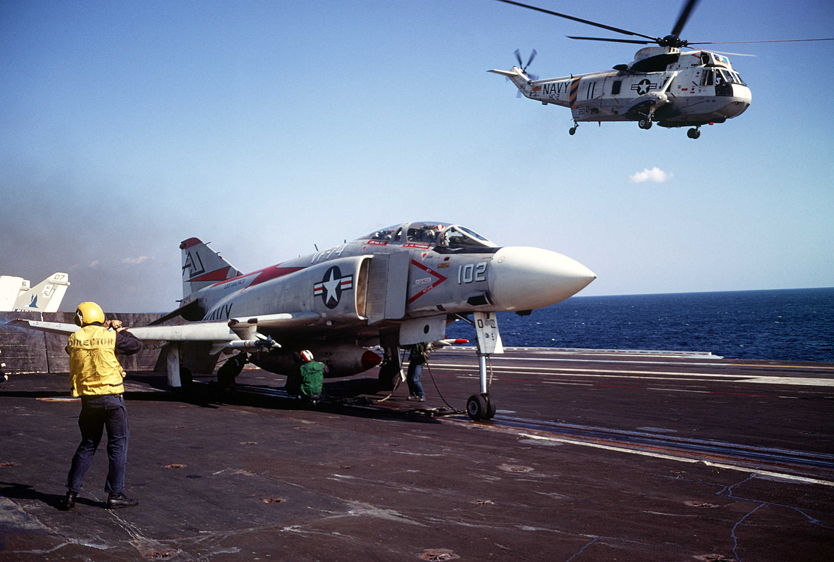 A U.S. Navy McDonnell Douglas F-4J Phantom II from fighter squadron VF-74 Be-Devilers is prepared for launch during flight operations aboard the attack aircraft carrier USS America (CVA-66). VF-74 was assigned to Attack Carrier Air Wing 8 (CVW-8) aboard the America for a deployment to Vietnam from 5 June 1972 to 24 March 1973. In the background is a Sikorsky SH-3G Sea King helicopter from helicopter combat support squadron HC-2 Det.66 Fleet Angels.